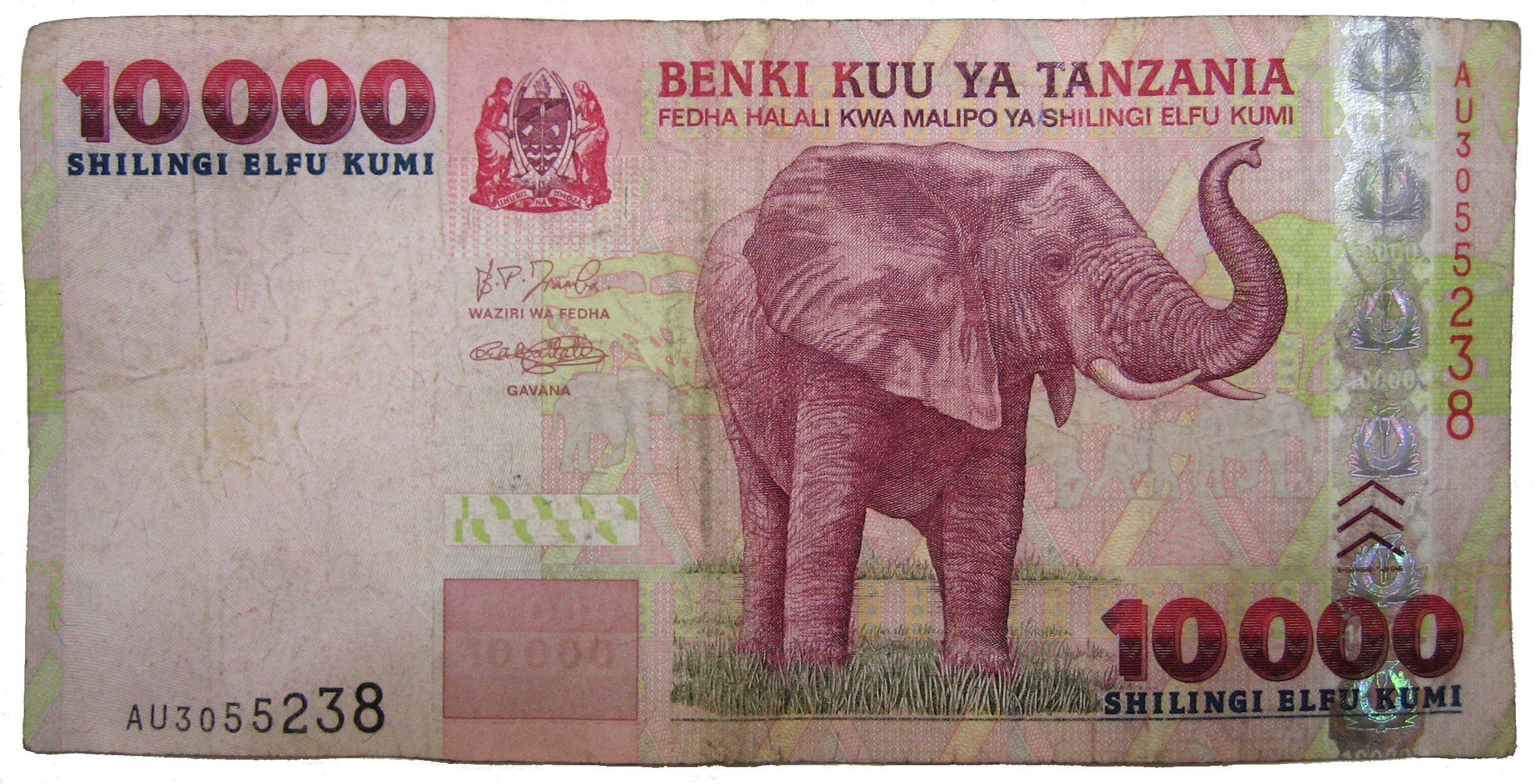 10 000 Tanzanian shillings note, front, displaying an elephant (issued 2003).